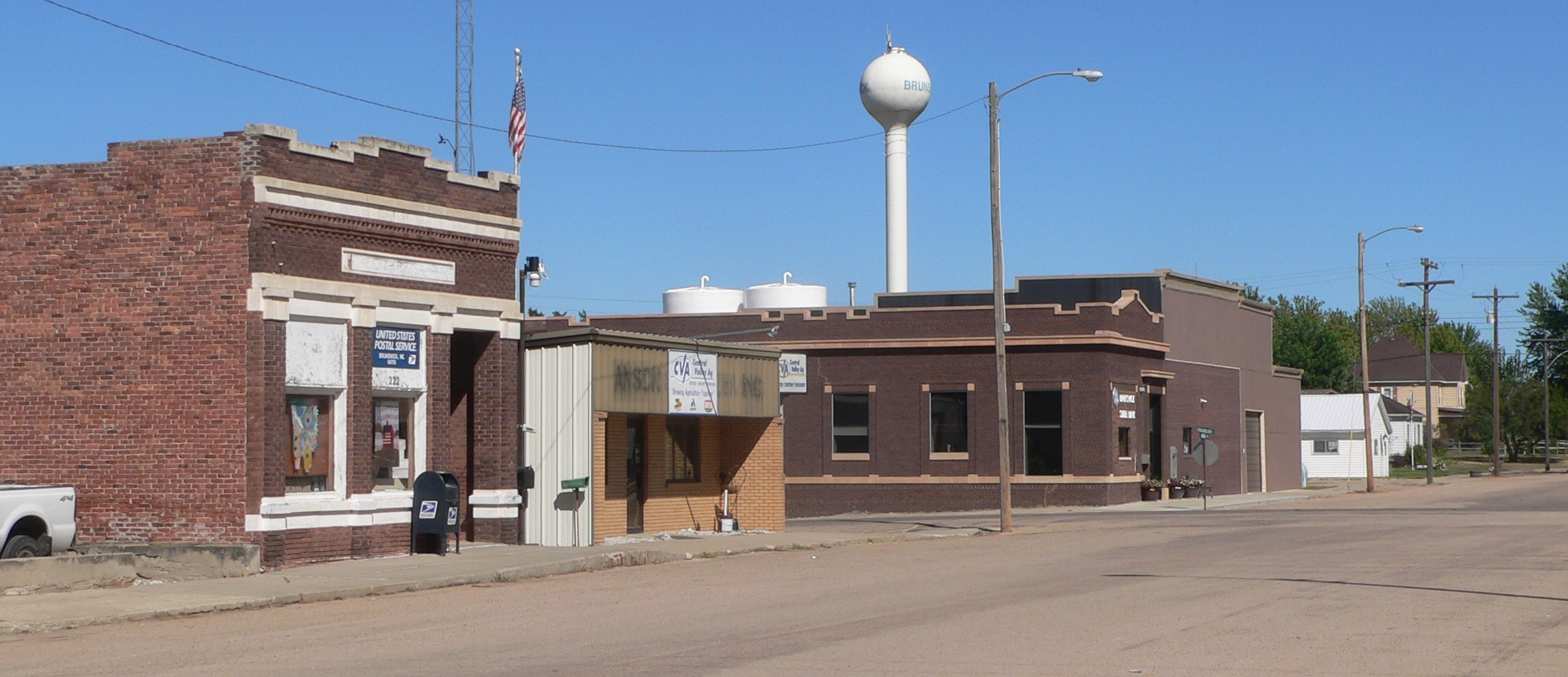 Downtown Brunswick, Nebraska: 2nd Street, looking northeast.